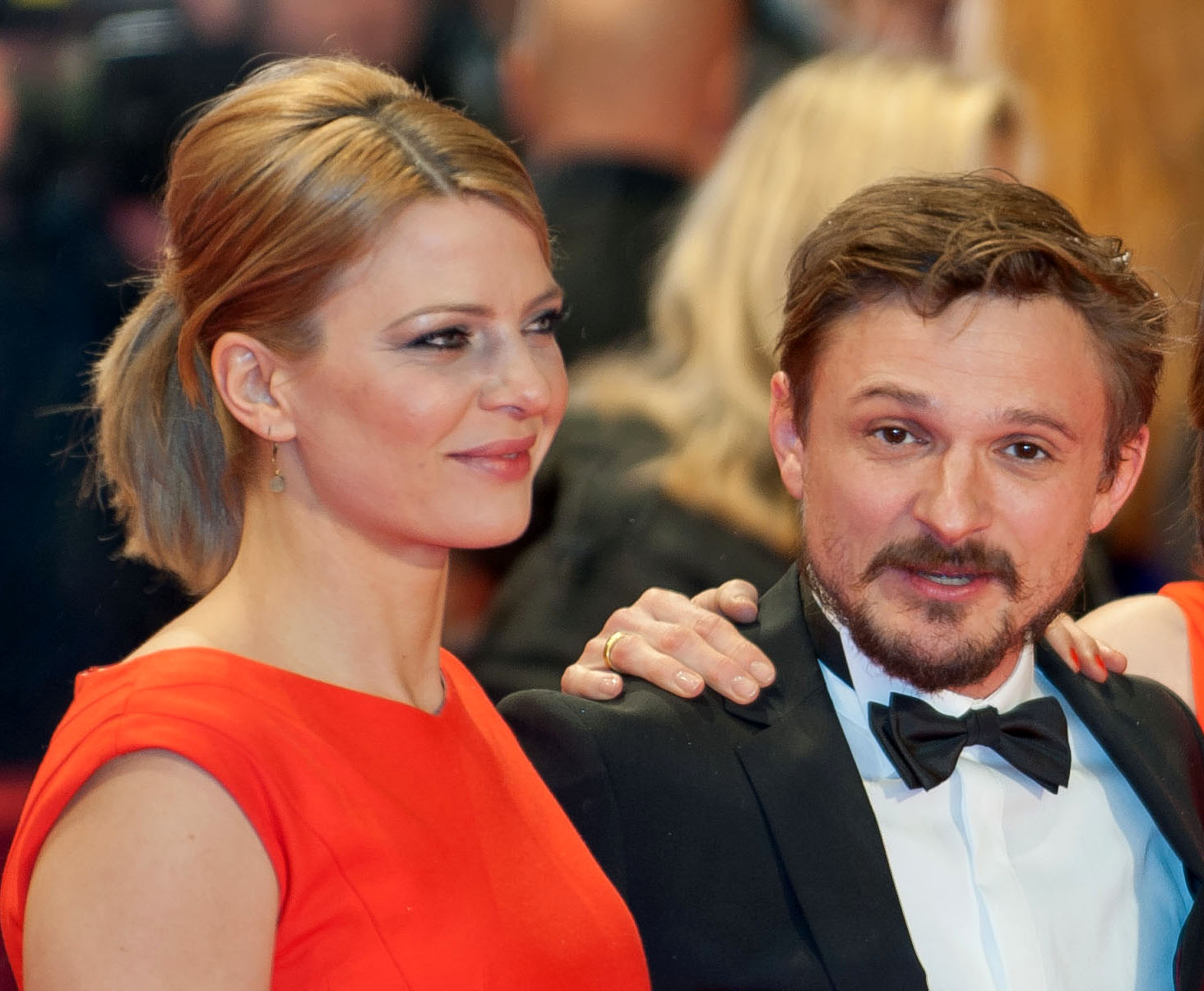 German Actors Jördis Triebel, Florian Lukas and Inka Friedrich (left to right) at the Berlin Film Festival 2013